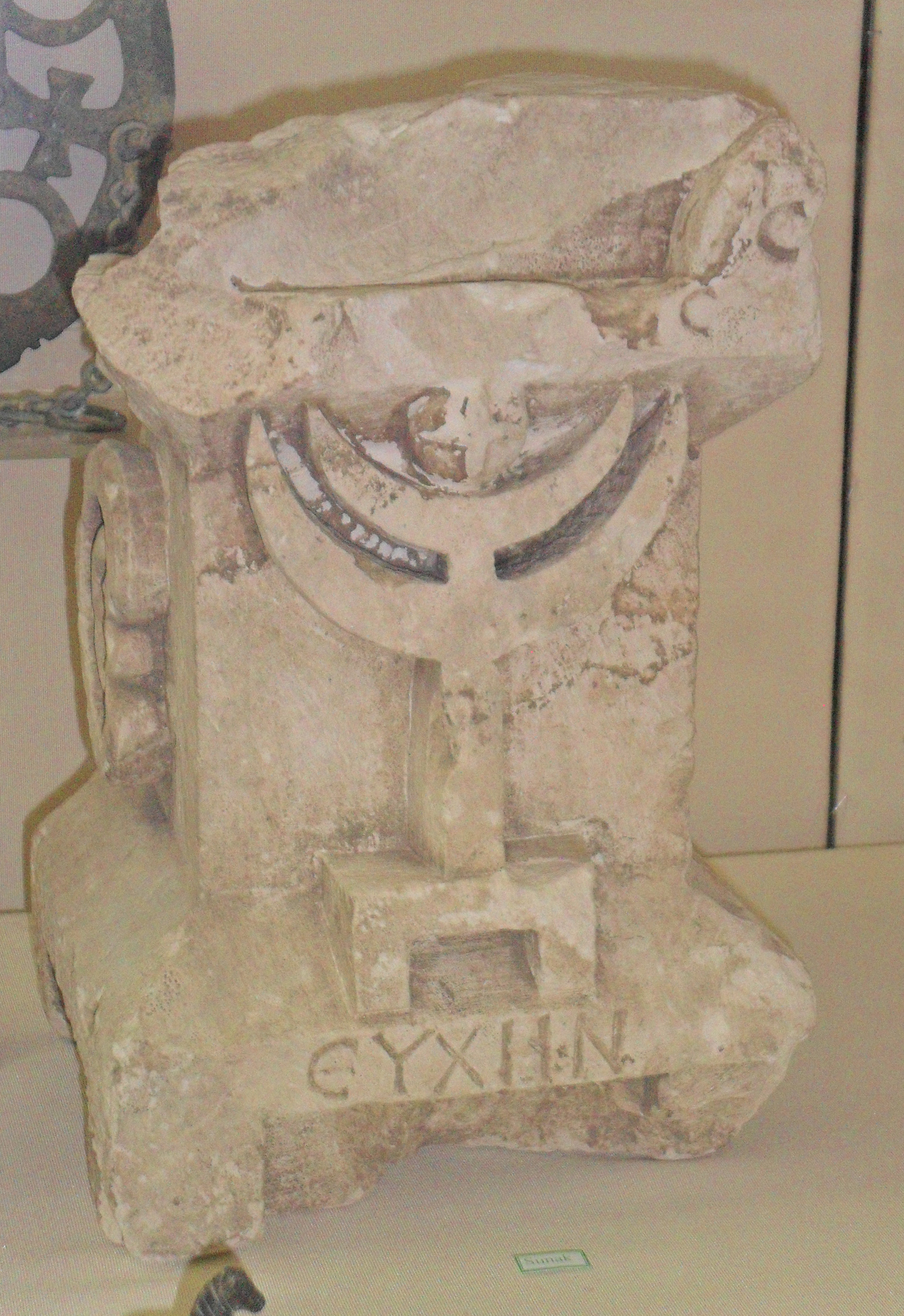 Altar in the Silifke Museum